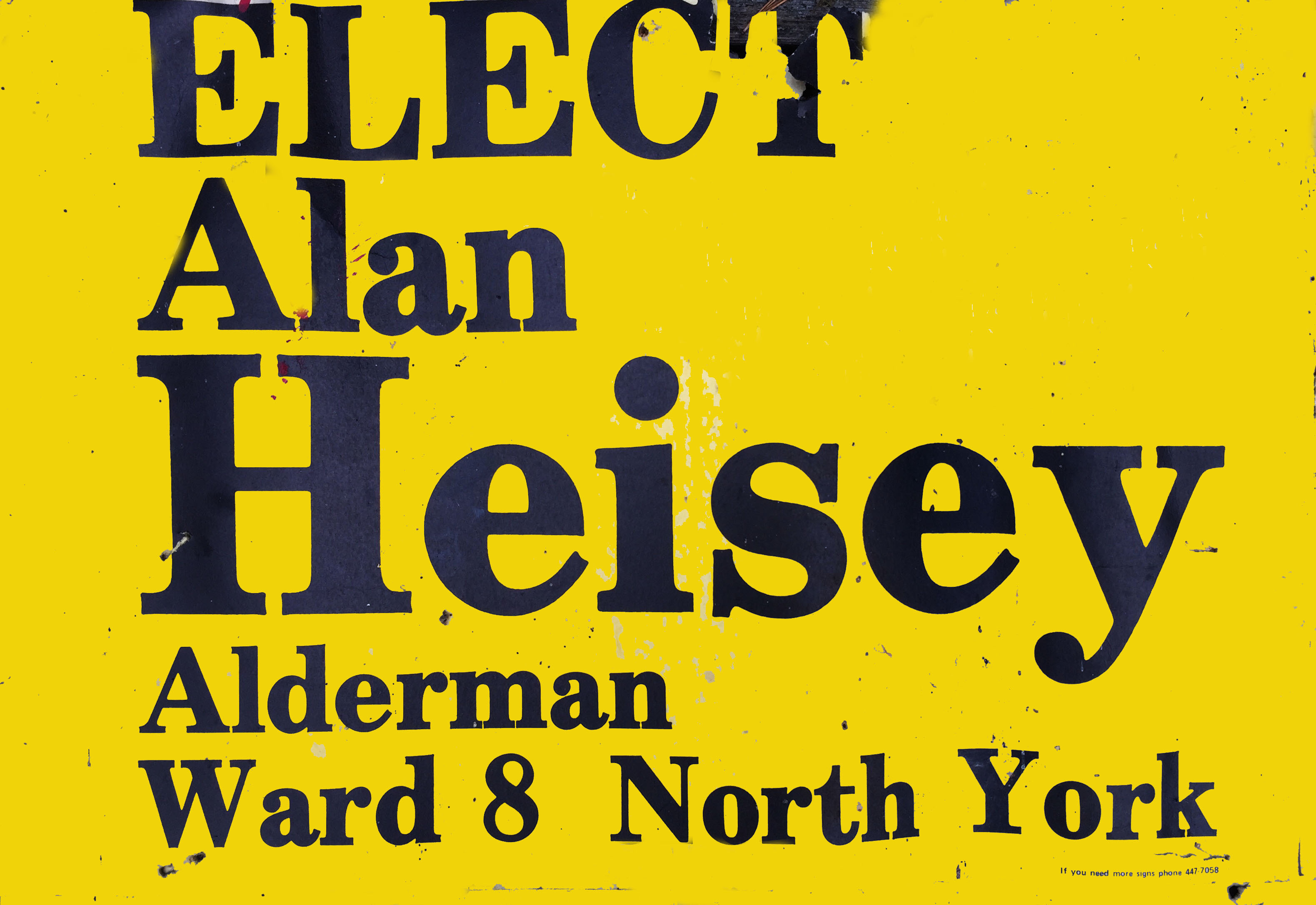 1976 Ward 8 North York Municipal Election Sign Campaign Of Alan Heisey for Alderman Other information Was published and created in the fall of 1976